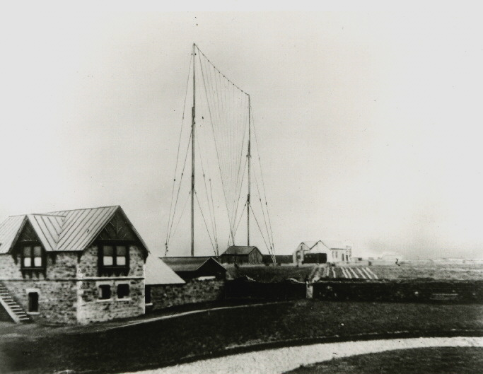 A rare picture of Guglielmo Marconi's Poldhu, Cornwall transmitting station showing the actual antenna used in the first historic transatlantic radio transmission on 12 December 1901. Marconi had originally constructed a large aerial consisting of 400 wires in an inverted cone shape, supported by a ring of twenty 160 foot wooden poles. This antenna collapsed in a storm 17 September 1901, and Marconi hastily erected the temporary antenna shown here, consisting of 50 wires in a fan shape, supported by a cable strung between two 160 foot poles, which was used in the experiment. Belrose contends this image is actually retouched, created from an earlier photo (The Marconi Company first antenna system at Poldhu) taken of the larger circular antenna by erasing all but two of the poles of the previous antenna and adding lines representing the fan shaped wire elements. There are no other images of the actual antenna used in the transatlantic experiment, as Marconi quickly replaced this temporary antenna with a more sturdy permanent antenna in the form of a 400-wire inverted pyramid supported by four wooden lattice masts.